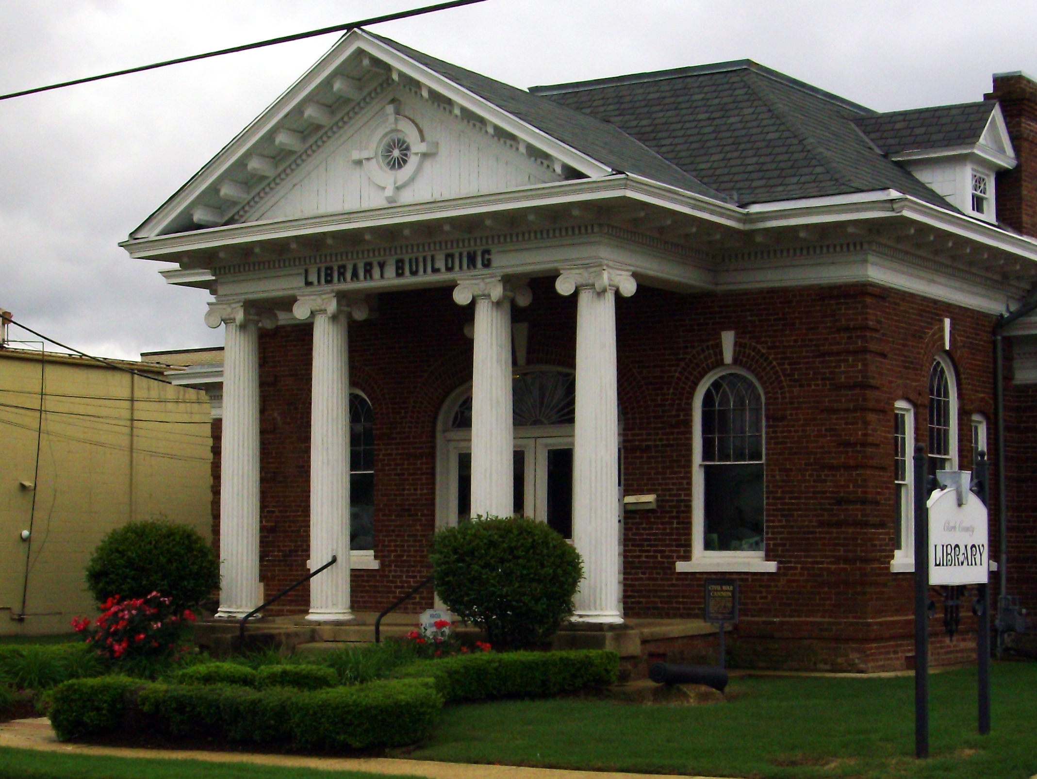 1903 Classical design by Charles L. Thompson